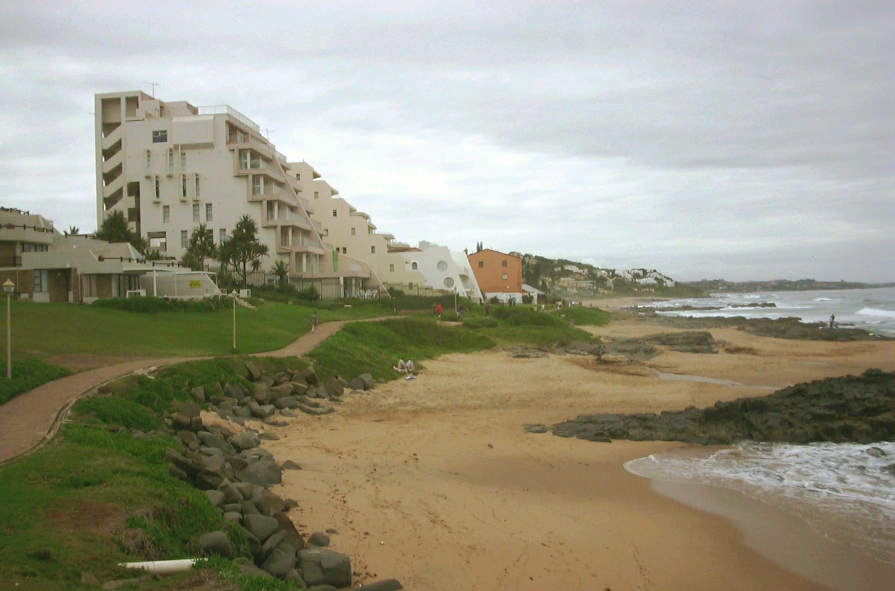 Beach walk Ballito, KwaZulu-Natal, South Africa. Photo taken by myself during my vacation in October 2004. Free for anyone who wants to use it.